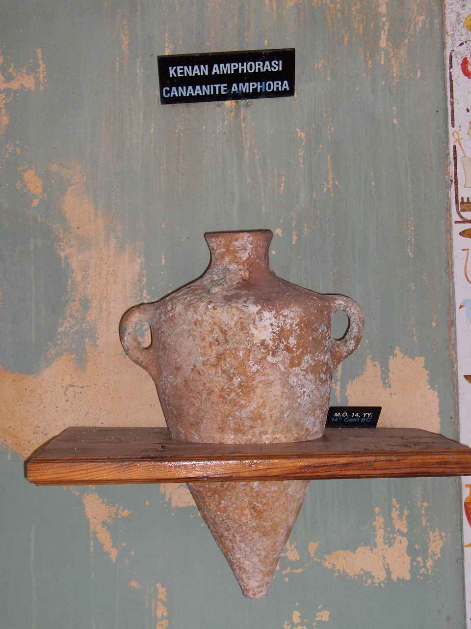 Canaanite amphora, 14th c. BC, St. Peter's castle; Bodrum, Turkey